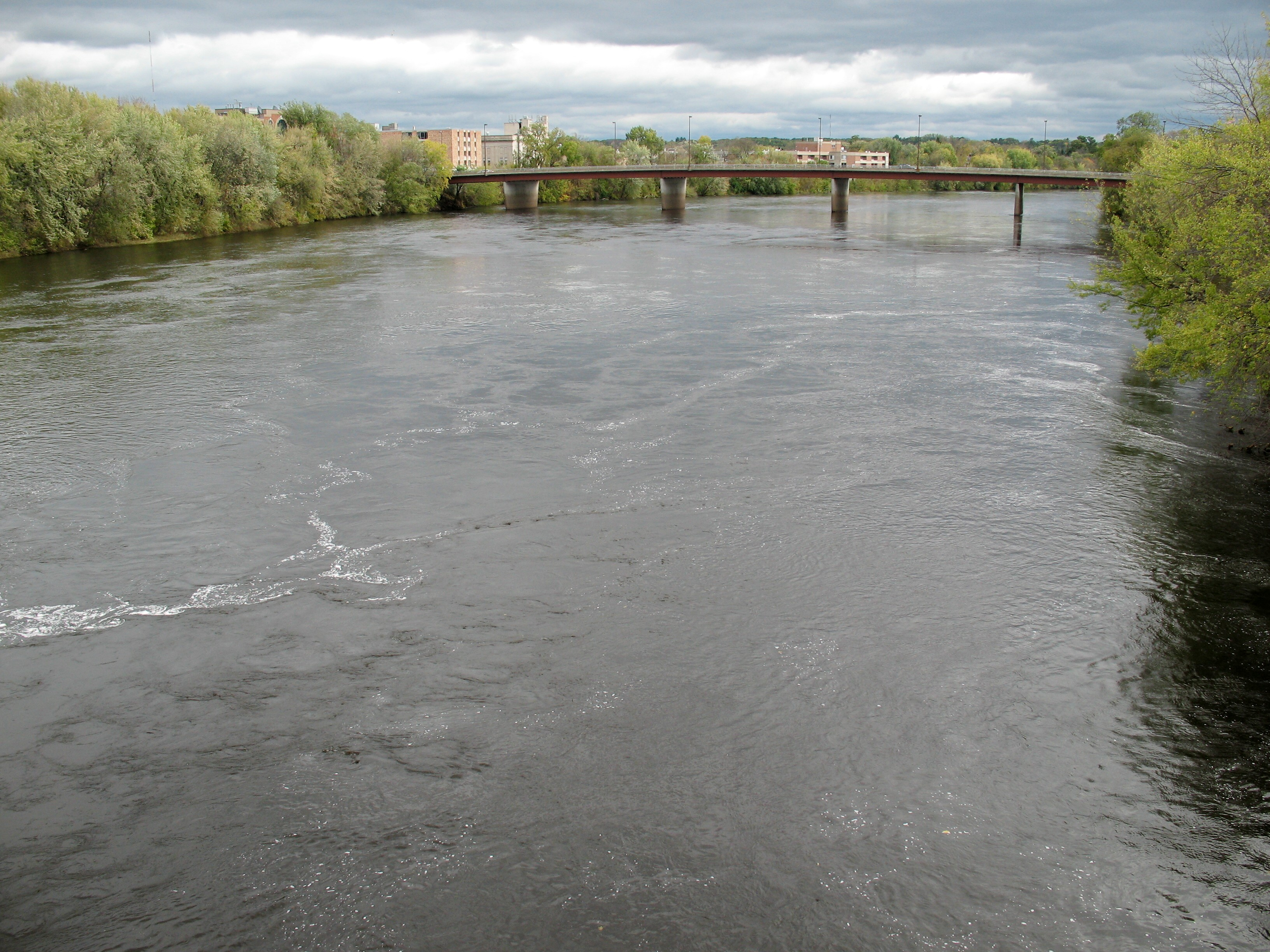 The Chippewa River as viewed downstream from a pedestrian bridge connecting East Grand Avenue and West Grand Avenue in Eau Claire, Wisconsin.